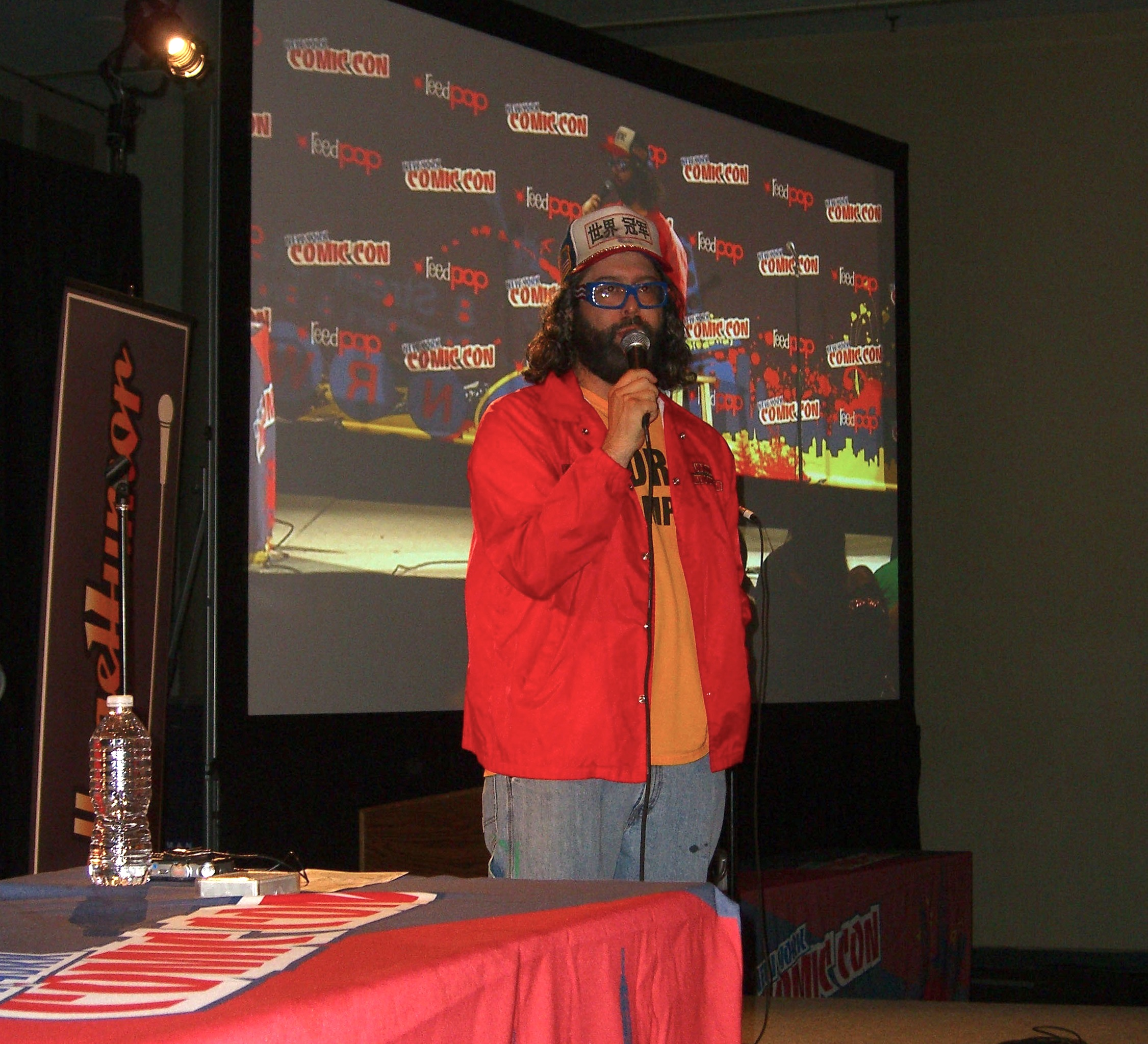 Actor/comedian Judah Friedlander performs during the CollegeHumor presentation on Day 2 of the 2012 New York Comic Con, Friday October 12, 2012 at the Jacob K. Javits Convention Center in Manhattan. This photo was created by Luigi Novi. It is not in the public domain, and use of this file outside of the licensing terms is a copyright violation.